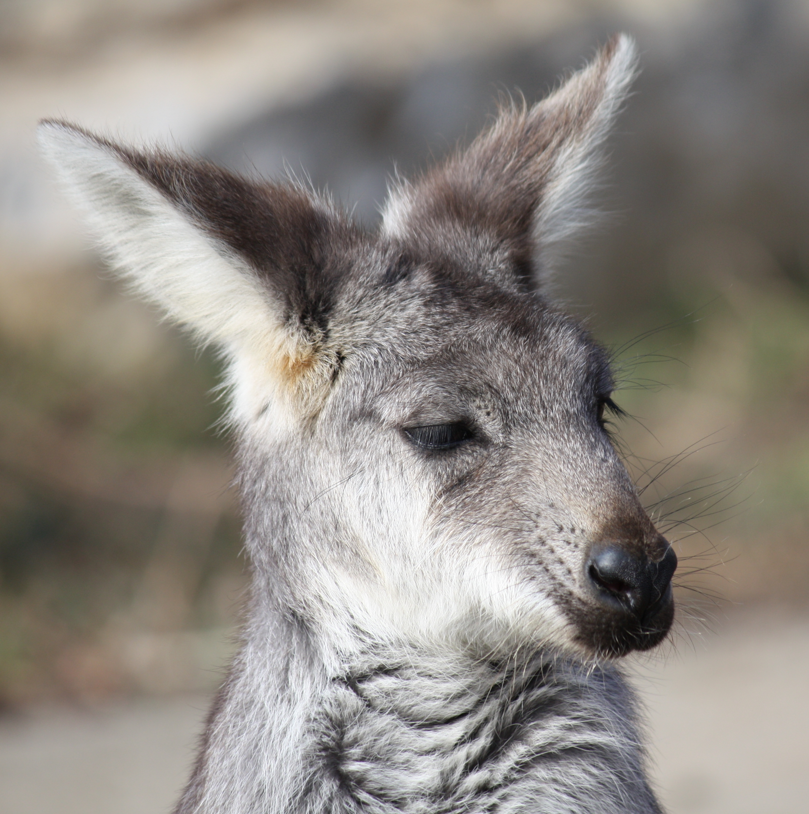 Wallaroo Macropus robustus at the Louisville Zoo